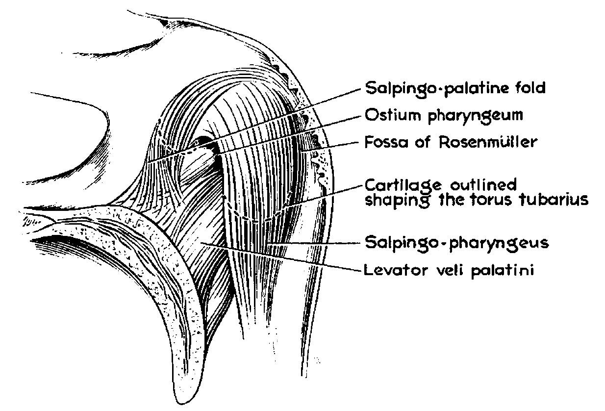 Dissection to show the muscle fasciculi of the right torus tubarius after the removal of the mucous membrane. (Drawn from the cadaver.)